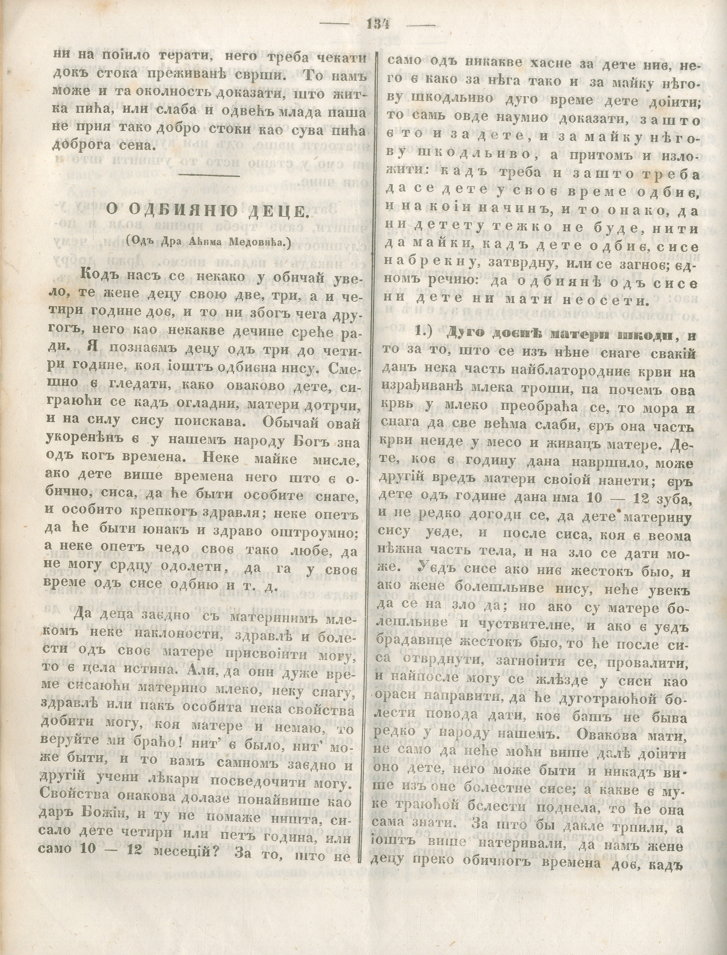 Serbian magazine Čiča Srećkov list, Belgrade, number 17, 27. April, page 134, 1848. Article by Acim Medovic. Srpski (latinica): Časopis Čiča Srećkov list, Beograd, broj 17, 27. april, strana 134, 1848, članak Aćima Medovića: Kad treba prestati sa dojenjem.